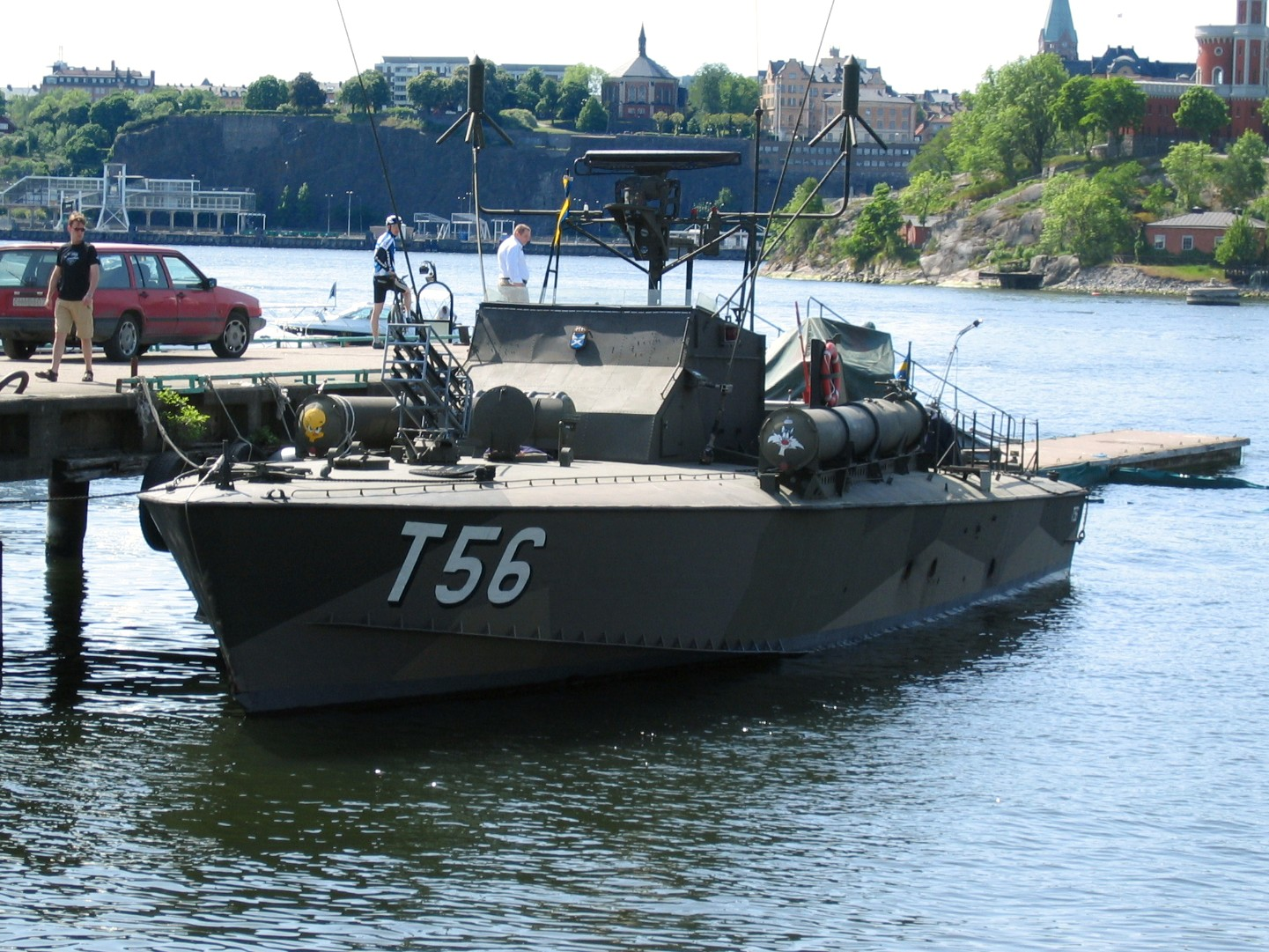 Swedish Motor Torpedo Boat T56 This is an image of the protected Swedish ship T56, with call sign SLWM .